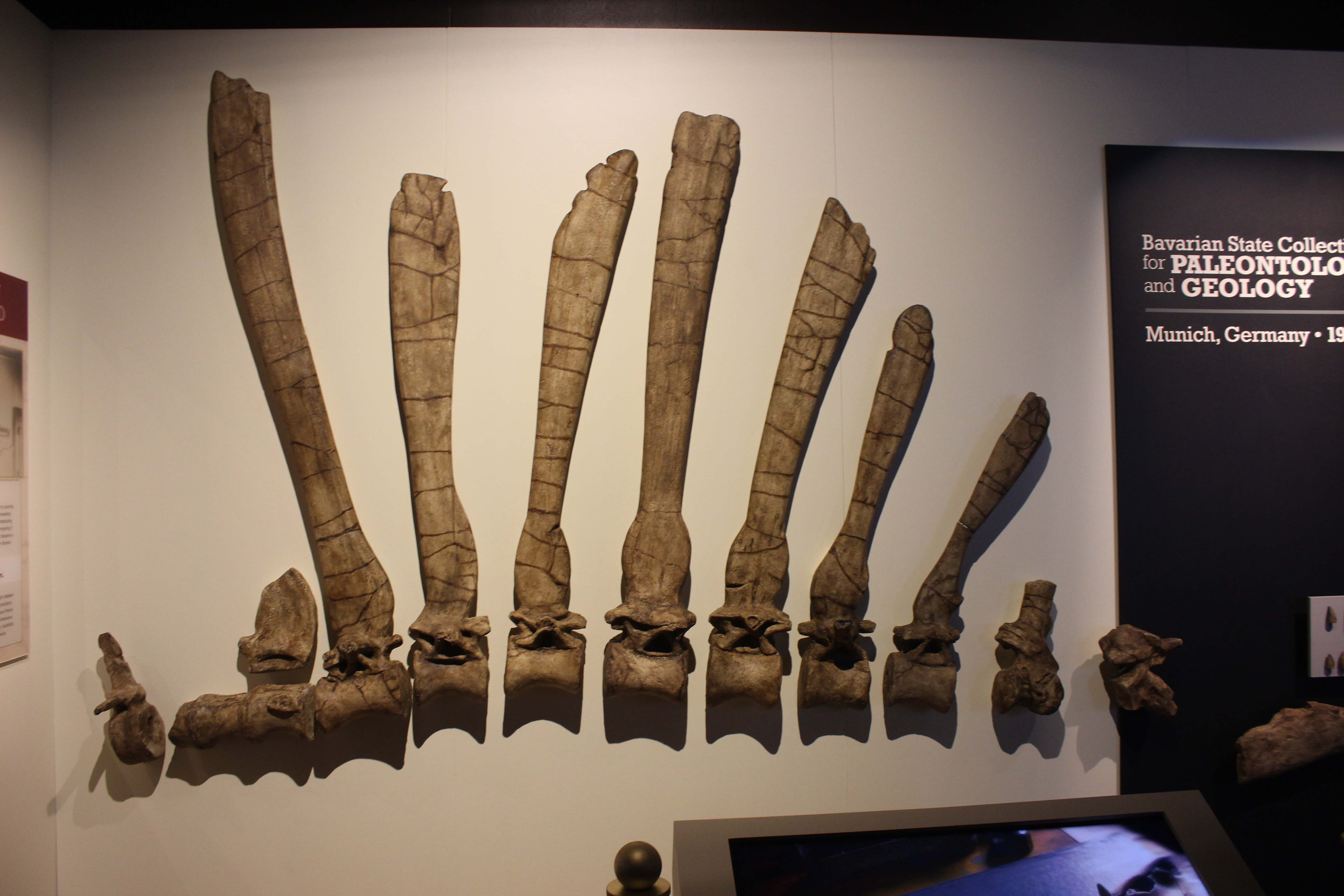 Taken at the National Geographic Museum Spinosaurus Exhibit. Photo by